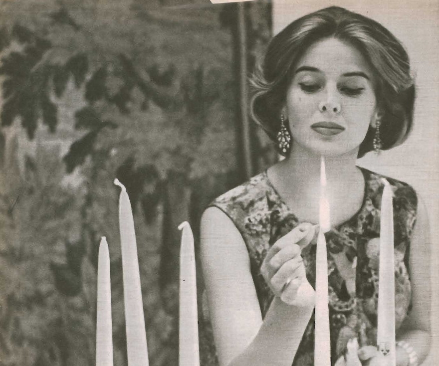 Italian actress Eleonora Rossi Drago in her house